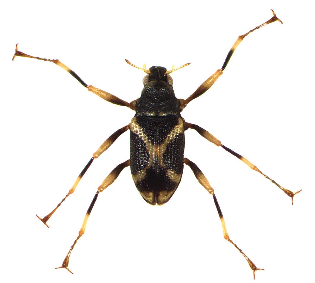 Ancyronyx schillhammeri, adult